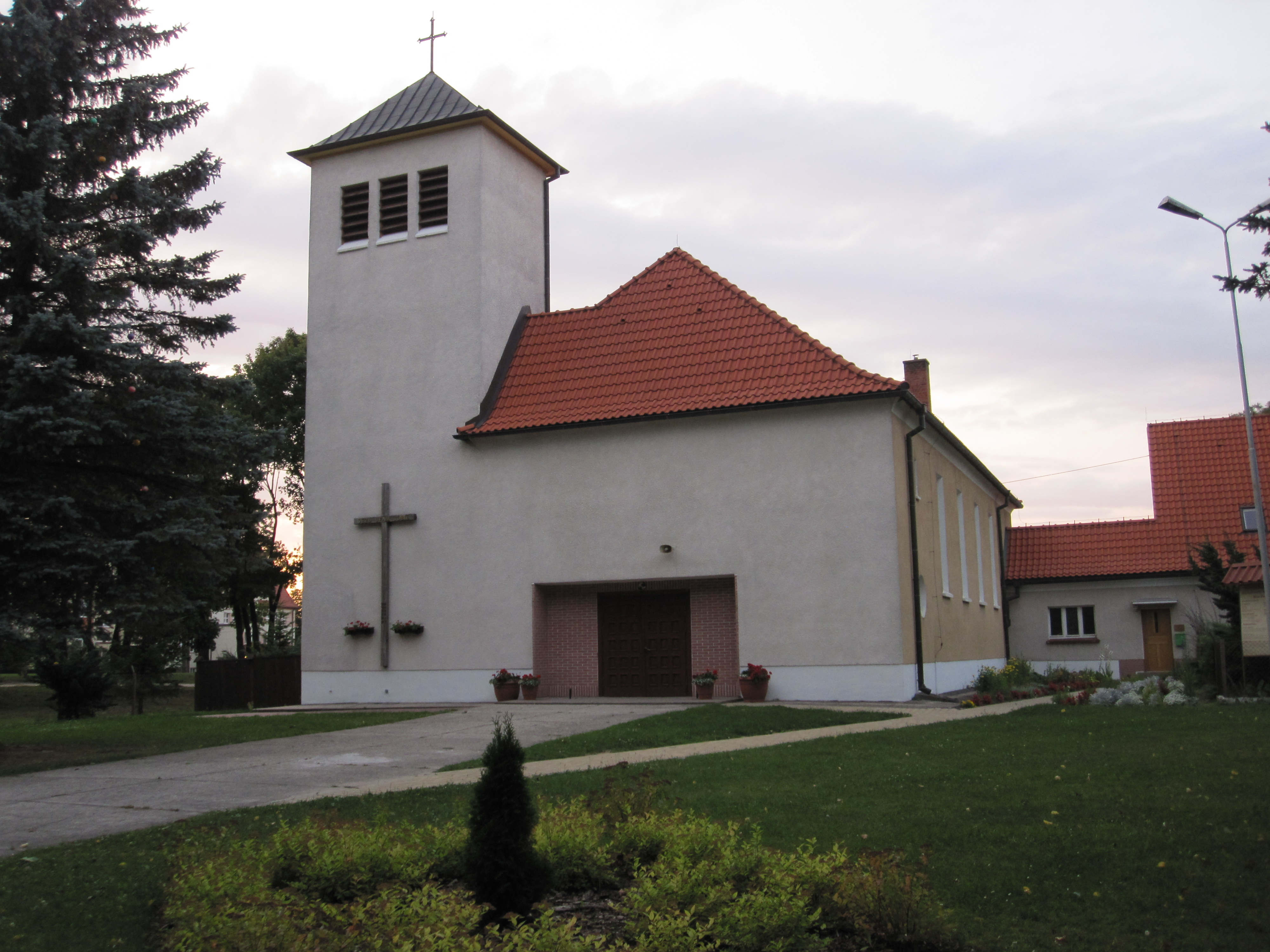 Church of Our Lady of the Rosary in Piecki